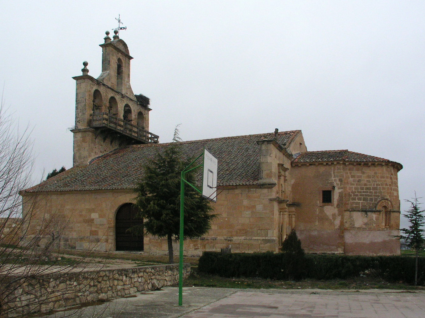 Duruelo church in the province of Segovia, Spain. The photo was taken the 28 of December 2003 by Håkan Svensson (Xauxa).